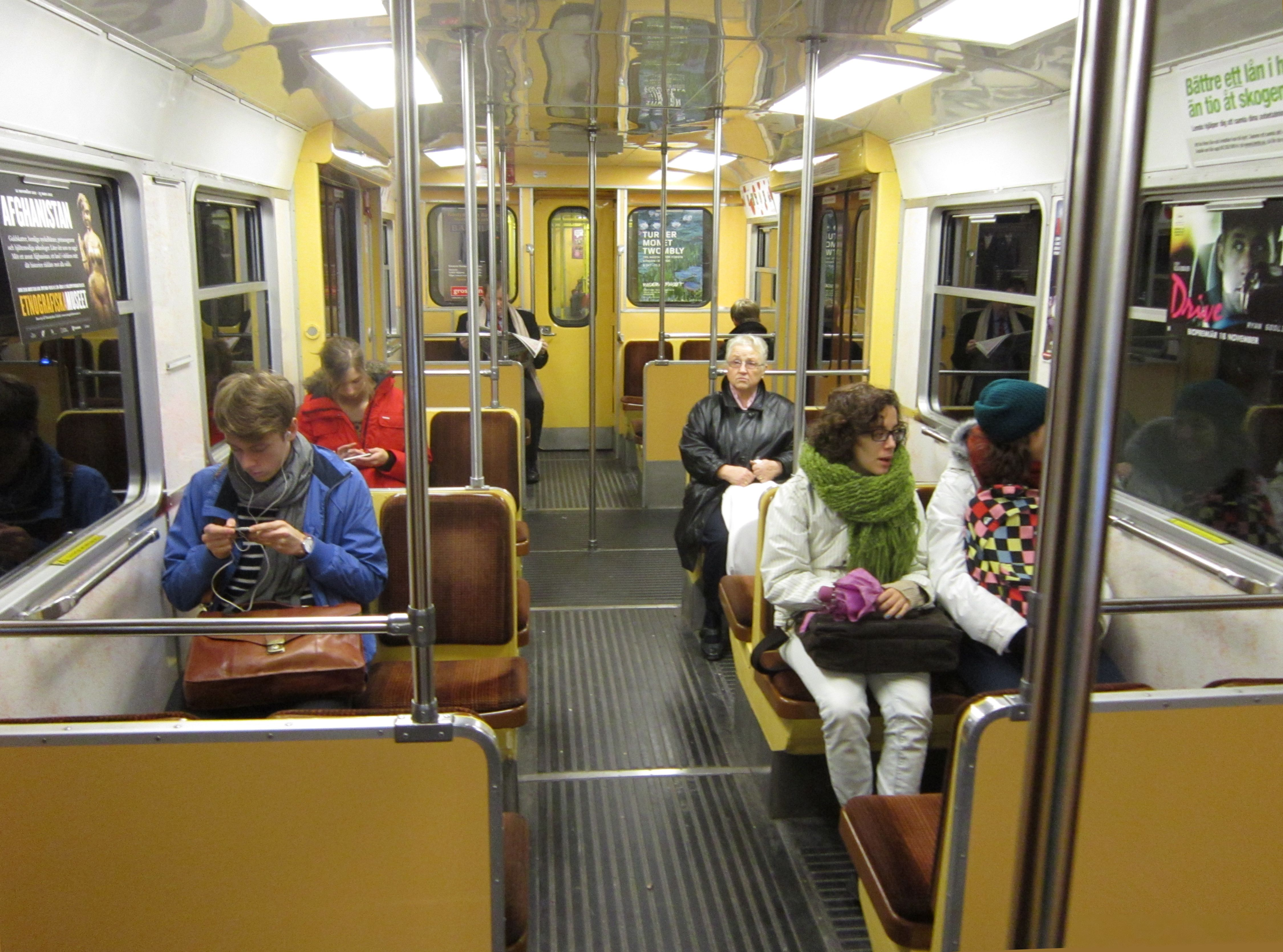 Interior of Stockholm Metro old-generation car